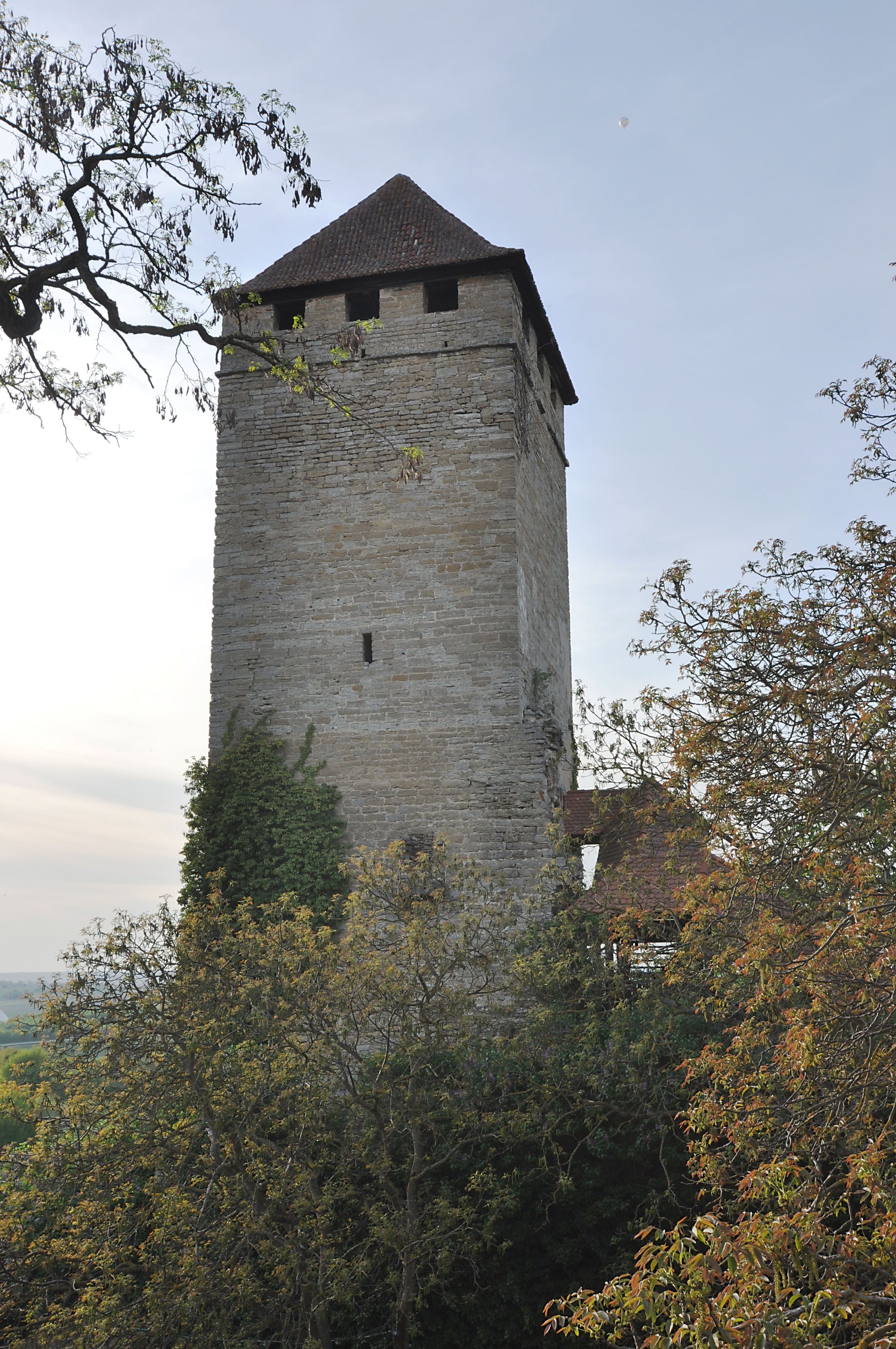 Schloss Liebenstein near Neckarwestheim, keep of the old castle